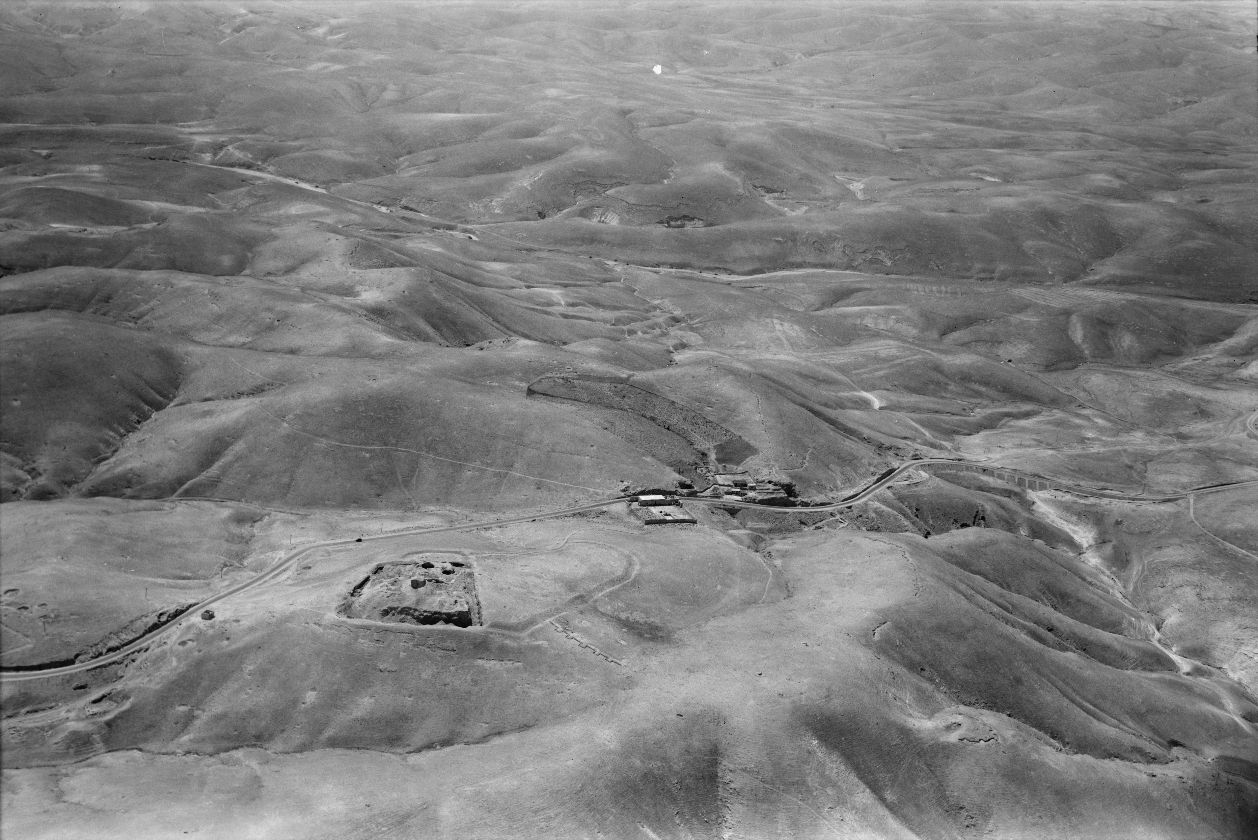 Title: Air views of Palestine. Air route following the old Jerusalem-Jericho Road. The Good Samaritan's Inn. Looking S.W., ancient road, castle in foreground Abstract/medium: G. Eric and Edith Matson Photograph Collection Physical description: 1 negative